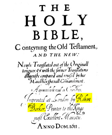 reproduction of the frontis of the 1611 edition of the King James Bible. Frontis Text: The Holy Bible Conteyning the Old Teſtament, AND THE NEW: Newly Tranſlated out of the Originall tongues: & with the former Tranſlations diligently compared and verified by his Maiesties speciall Comandement. Appointed to be read in Churches. Imprinted at London by Robert Barker. Printer to the Kings moſt Excellent Maiestie. Anno Dom. 1611. Detailed Image.